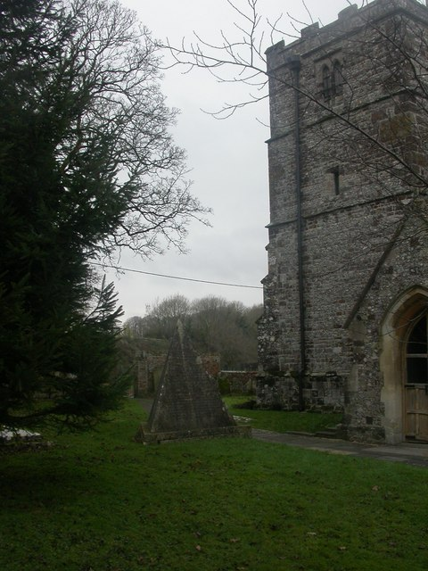 Rackett monument, Spetisbury Unusual pyramidal monument to Thomas Rackett (died 1840) and his wife Dorothy (died 1833). Part of the inscription reads "Talents were not confined to the exercise of ordinary Parochial duties, they extended themselves to the Promotion and Cultivation of the various useful Arts which soften the asperity of human nature." In other words, he was an absentee vicar, whose absences caused villagers to convert to Catholicism, and complain to the House of Lords.